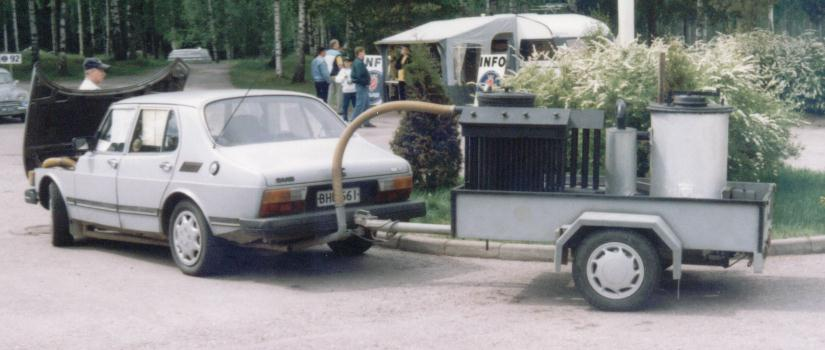 Saab 99 running on wood gas. Wood gas generator on trailer. International SOC, Ellivuori, Finland. June 8–10, 2001.